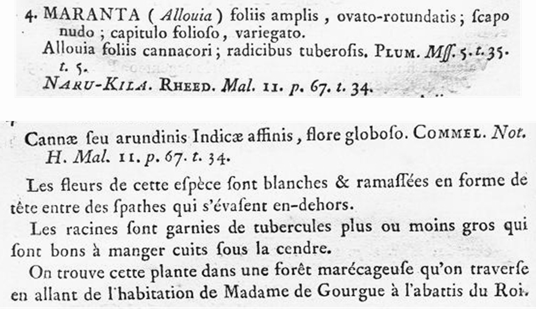 Descriptio of Maranta allouia (now Goeppertia allouia) by Aublet